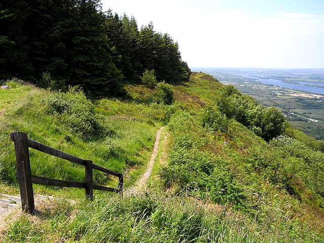 Clifftop path at the Cliffs of Magho This path runs for a short way west of the viewpoint on the Cliffs of Magho, giving stunning views over Lower Lough Erne.